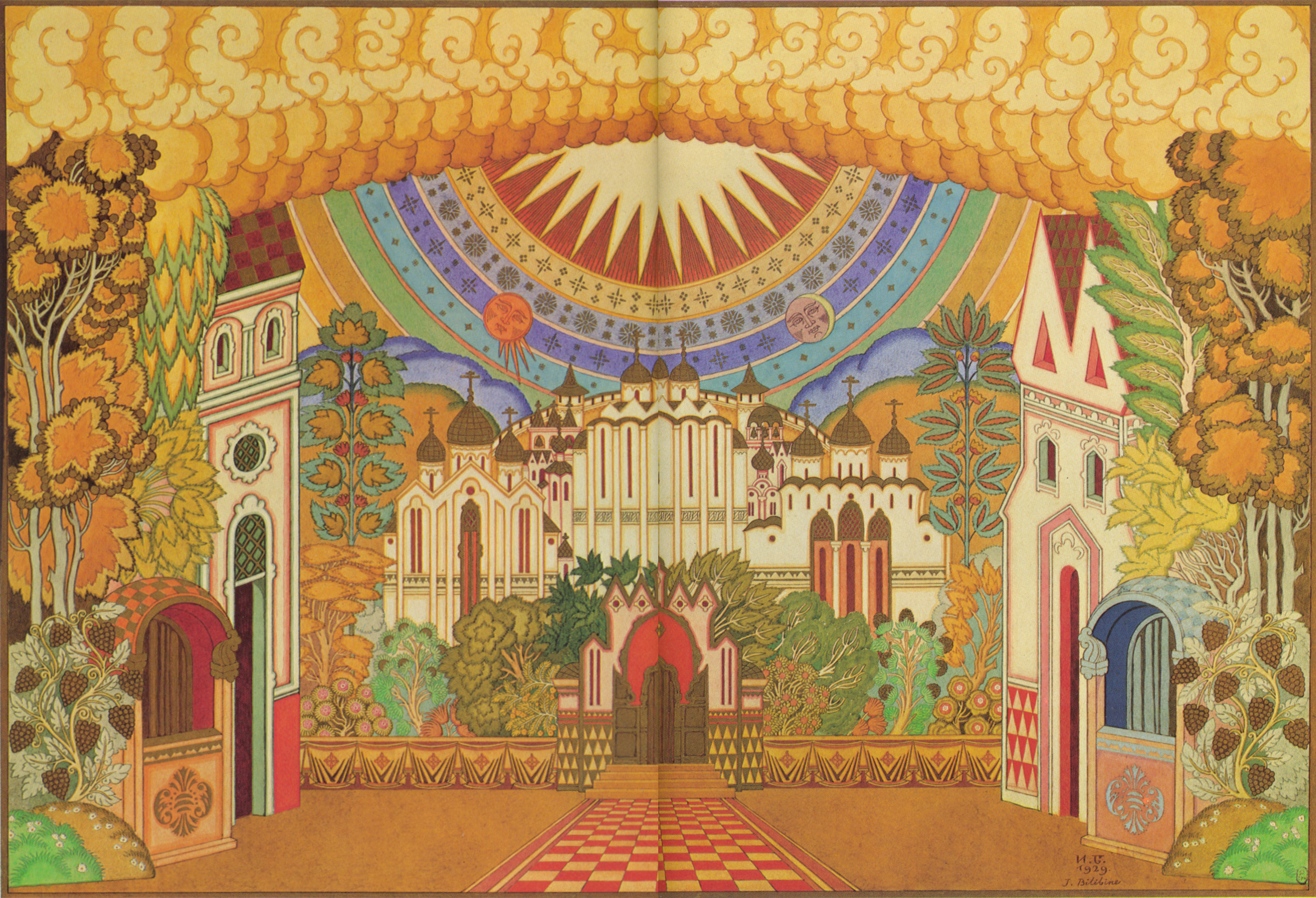 KITEZH TRANSFORMED. Stage-set design for Scene Two, Act Four of the opera the "Tale of the Lost City of Kitezh and the Maiden Fevronia" by Rimsky-Korsakov. 1929